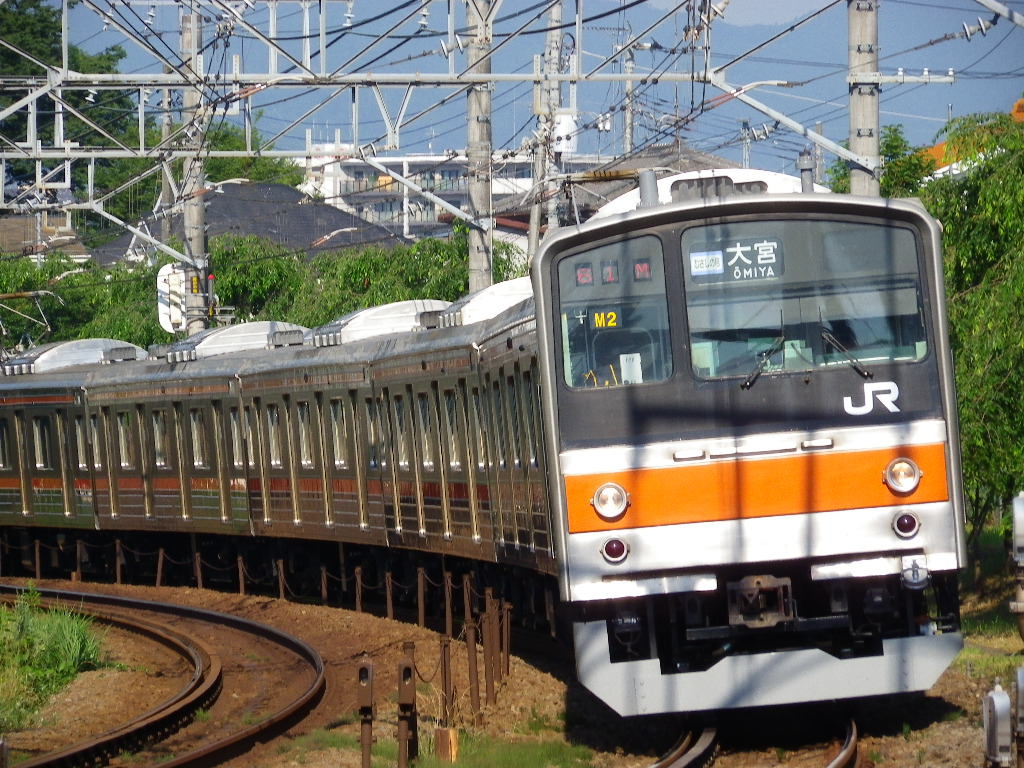 JR 205 series EMU set M2 on a Musashino Line Musashino rapid service bound for Omiya